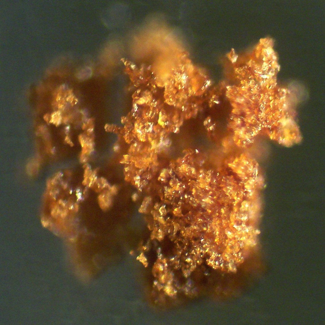 coffee 50-times magnified